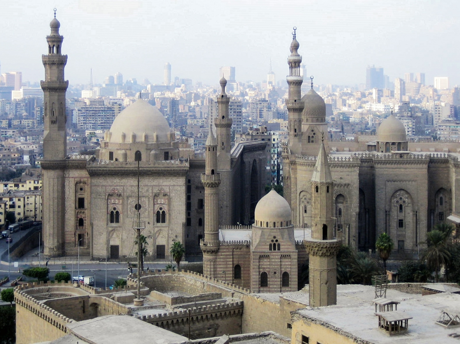 View from the Citadel. Cairo - December 2005. Photographer: Paul Mai. this pictuer is form after the B.C.